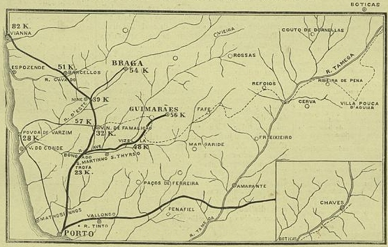 Project for the Caminho de Ferro de Bougado a Guimarães (Bougado to Guimarães Railway) (future Linha de Guimarães - Guimarães Railway), starting at the Trofa train station, on the Minho Railway, in Portugal. In the map it is also drawn the Ramal de Braga (Braga branch line), part of the Linha do Douro (Douro Railway), and the abandoned project of the Companhia do Caminho de Ferro do Porto à Póvoa e Famalicão (Porto to Póvoa and Famalicão Railway Company) to continue its line until Chaves. This image was originally published in the Occidente magazine No. 96, of the 21st August 1881, and scanned by the Hemeroteca Municipal de Lisboa.